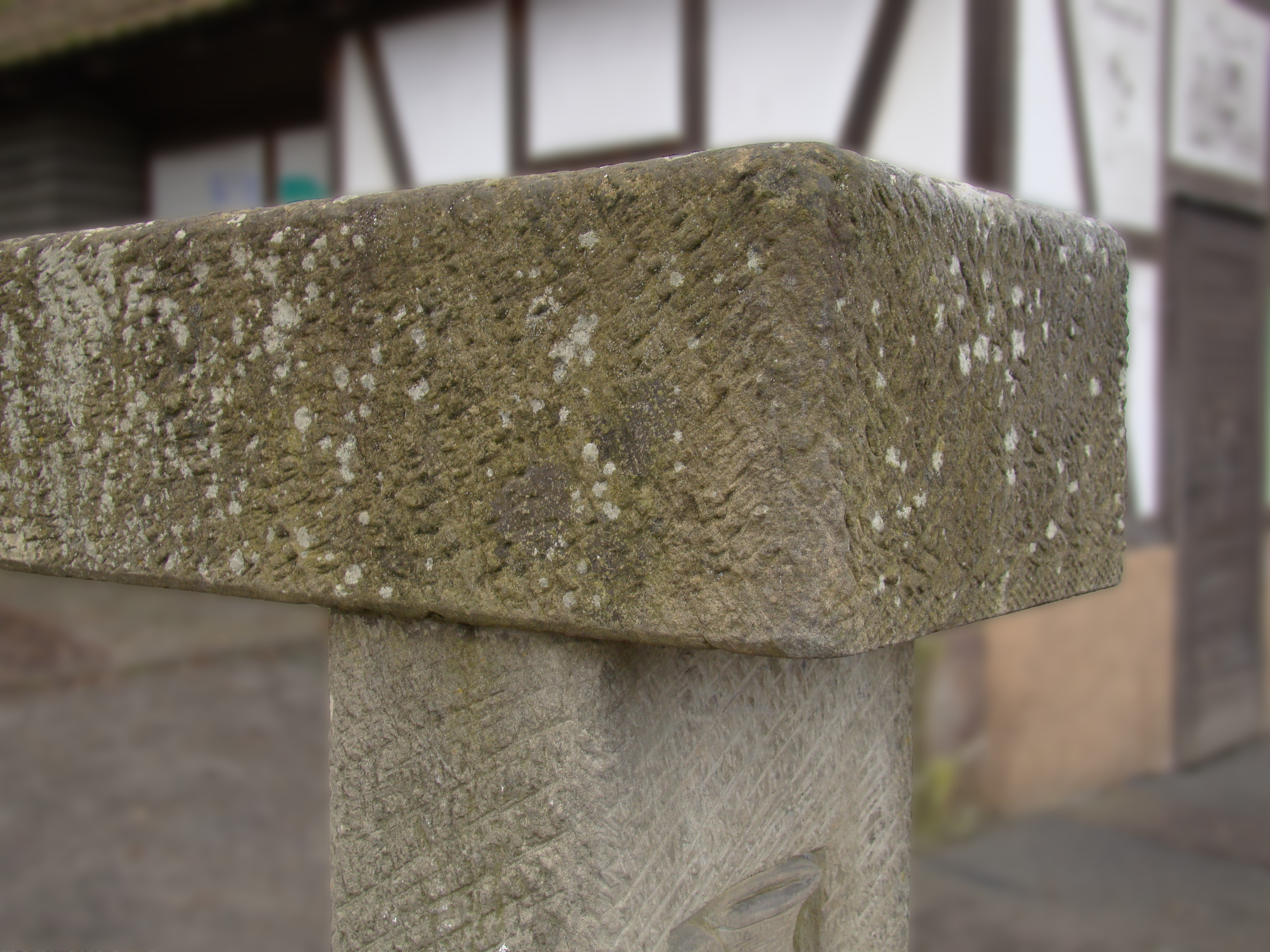 Stone rest bench in traditional style in Sersheim, detail